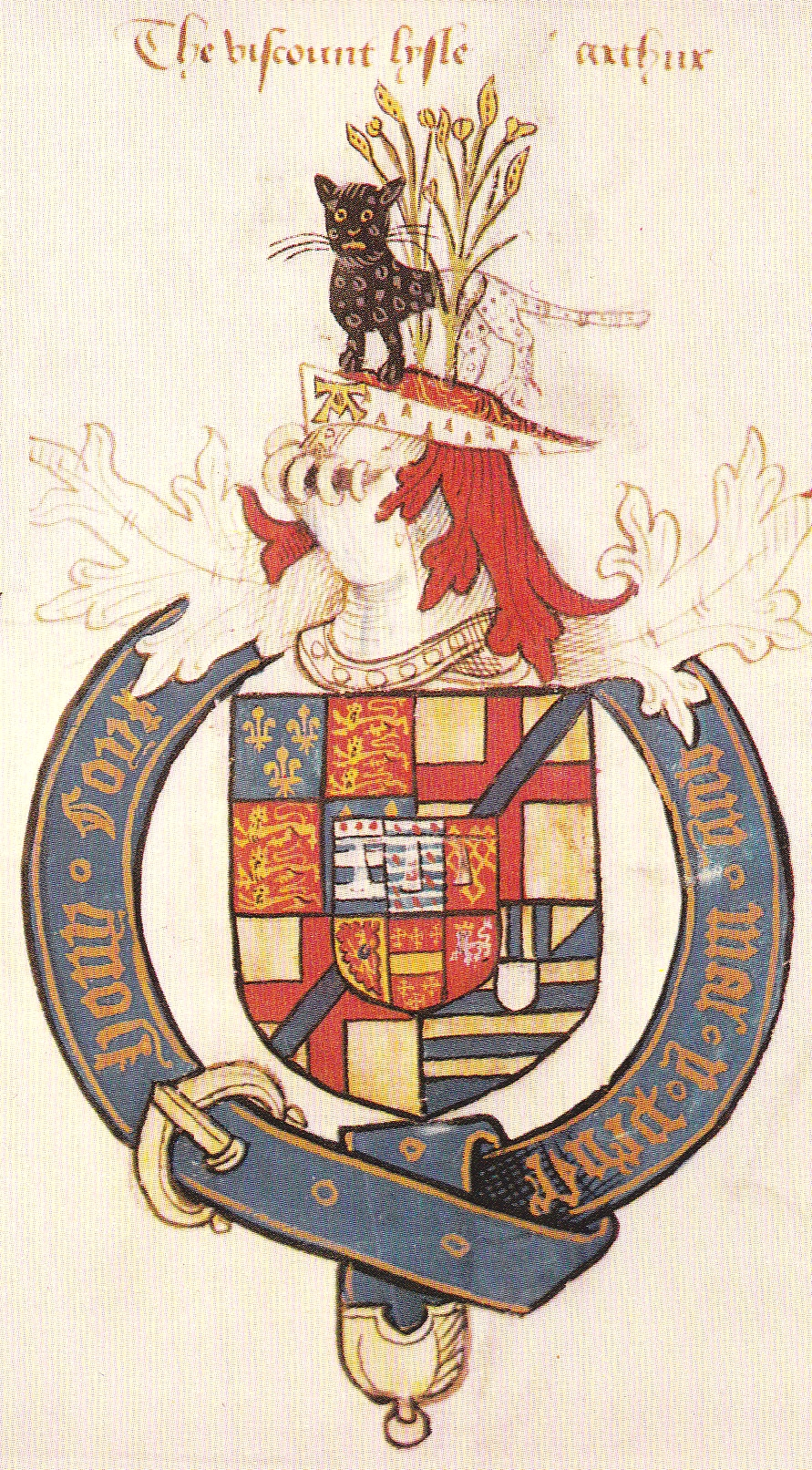 Arms of Arthur Plantagenet D.1542), Viscount Lisle, KG, from a manuscript in the collection of the Society of Antiquaries, London. The shield shows quarterly of four: 1st: Quarterly France modern and England (royal arms); 2nd & 3rd: de Burgh; 4th: Mortimer; Over-all an inescutcheon of pretence of Grey, Viscounts Lisle, quarterly of six, 1st: Barry of six argent and azure in chief three torteaux (Grey, Viscount Lisle); 2nd: Barry of argent and azure, an orle of martlets gules (Valence, Earl of Pembroke); 3rd: Gules, seven mascles or conjoined 3, 3, 1 (Ferrers of Groby as heir to de Quincy); 4th: Gules, a lion rampant within a bordure engrailled or (Talbot); 5th: Gules, a fesse between six crosses crosslet or (Beauchamp); 6th: A lion passant crowned (Lisle); in chief a label of three points argent. The whole encircled by the Garter. The canting crest: On a chapeau gules turned up ermine with a capital letter A at the front, a genet cat party per pale sable and argent and a sprig of genista (broom plant)